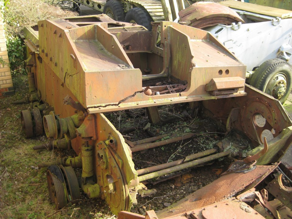 Stug III